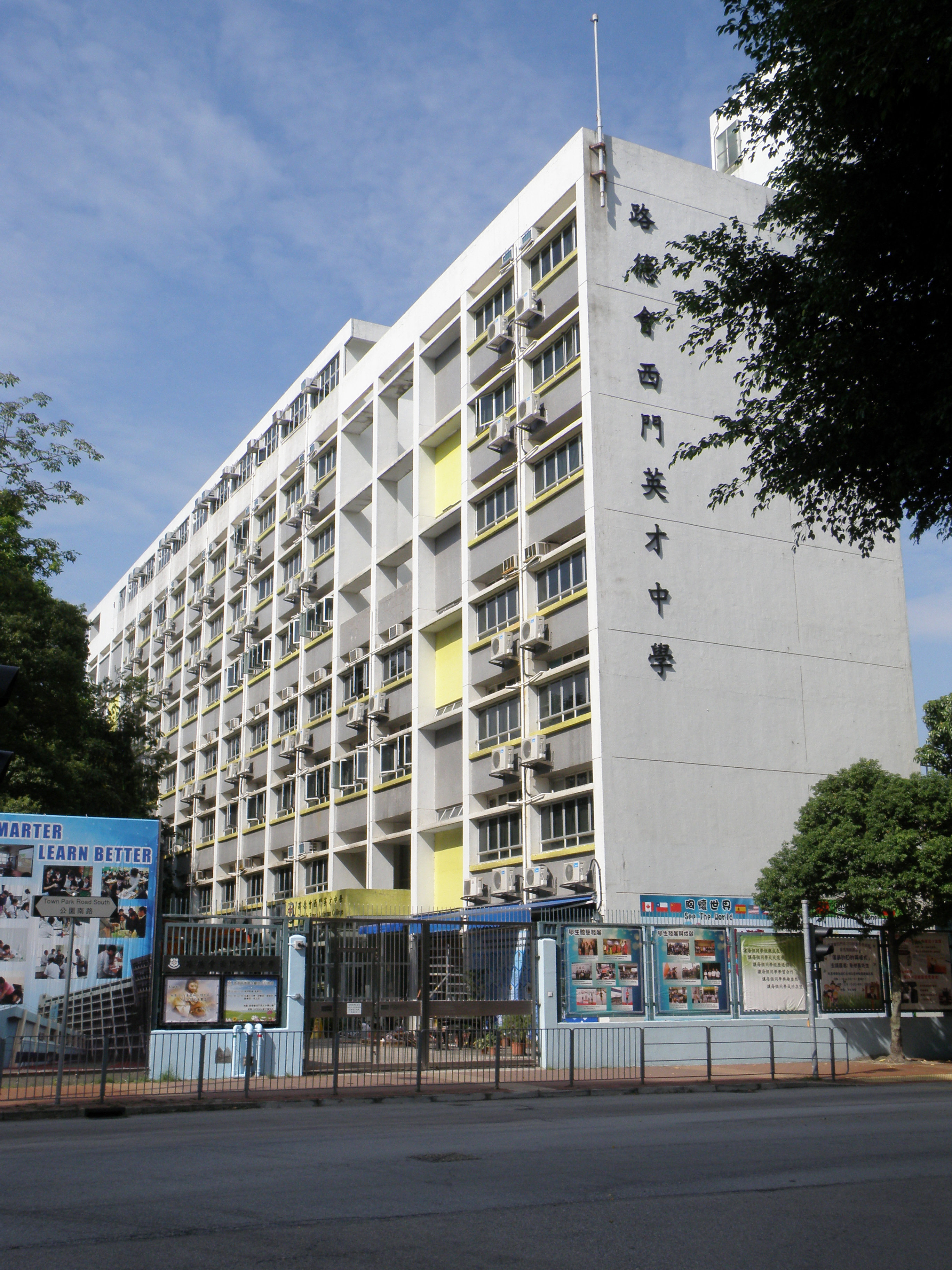 Gertrude Simon Lutheran College in Yuen Long, Hong Kong.